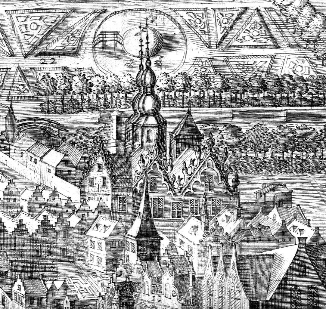 Bird's eye view of the Old Palace in The Hague, the Netherlands.